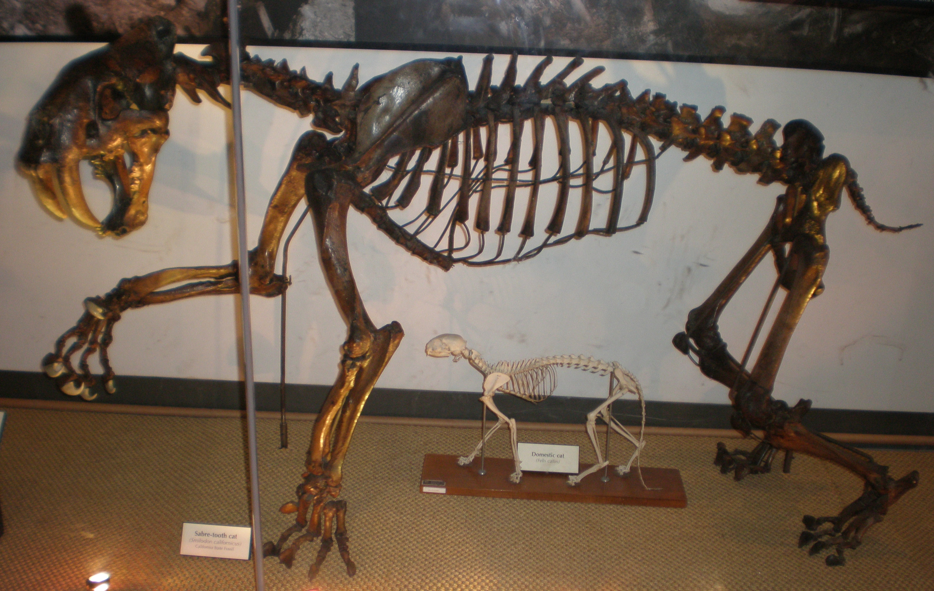 The skeleton of a Smilodon californicus in the collection of the University of California Museum of Paleontology and on display at the Valley Life Sciences Building on the UC Berkeley campus in Berkeley, California. The skeleton of a domestic cat is displayed for scale.